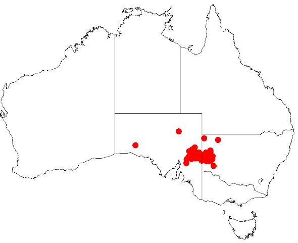 Acacia carneorum Occurrence data from Australasia Virtual Herbarium downloaded from on 8 December 2018